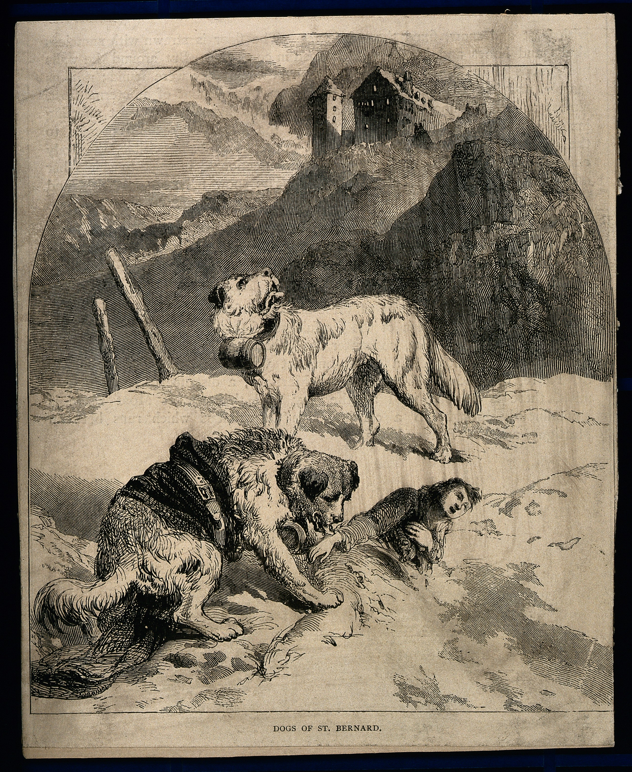 Two St. Bernard dogs find a lost unconscious figure in the snow, while one tries to revive the figure the other howls for help. Wood engraving. Iconographic Collections